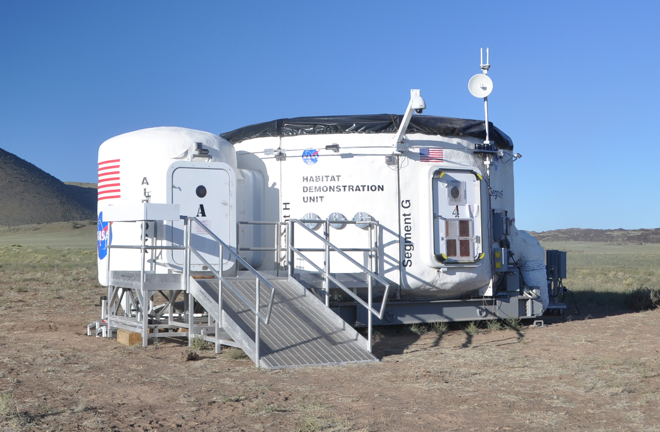 The Habitat Demonstration Unit Pressurized Excursion Module (HDU 1-PEM) is a one story, 3-port habitat unit. Engineers are evaluating the habitat design concept during the 2010 field tests.